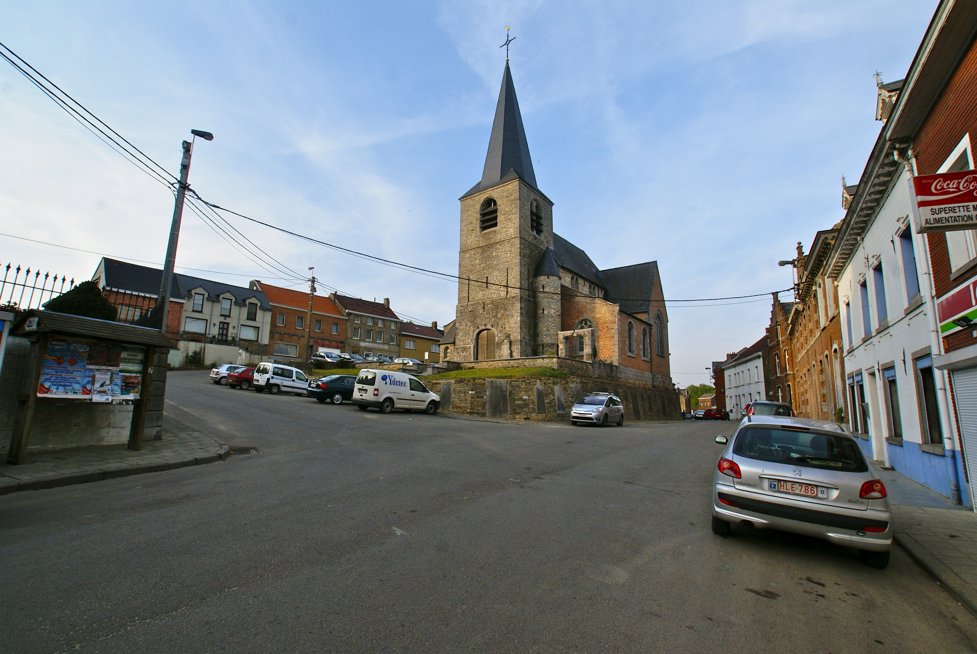 Braine-le-Comte (Ronquières), Belgium: Centra square